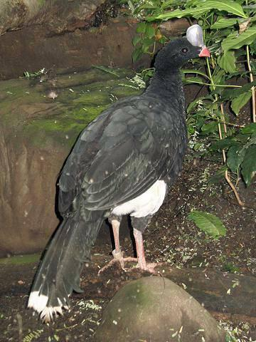 Description: Helmeted Curassow - Source: own work - Location: Bronx Zoo, New York - Author: self, User:Stavenn